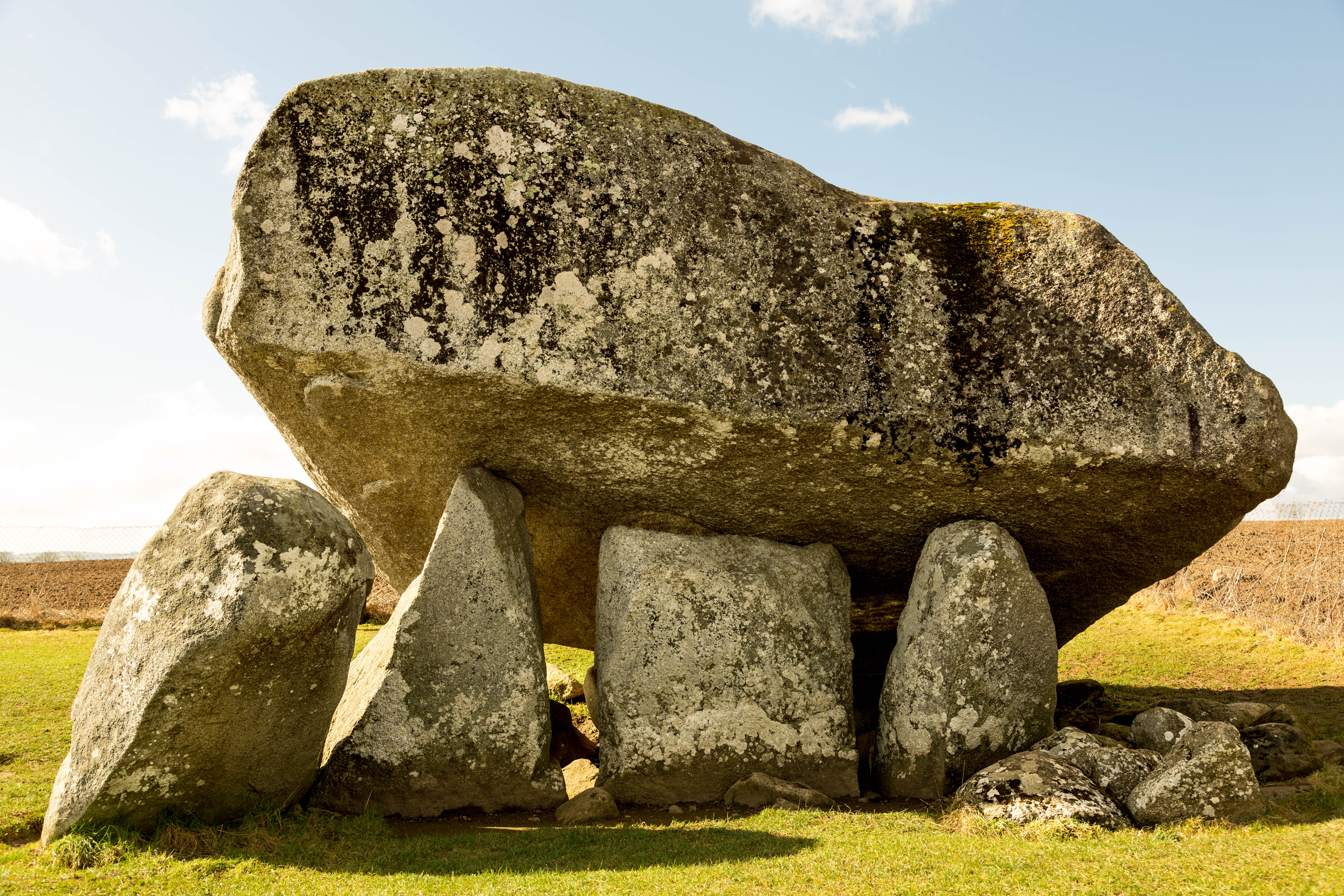 Travelling between meetings in Carlow and Dublin, I stopped off at Browneshill Portal Tomb.